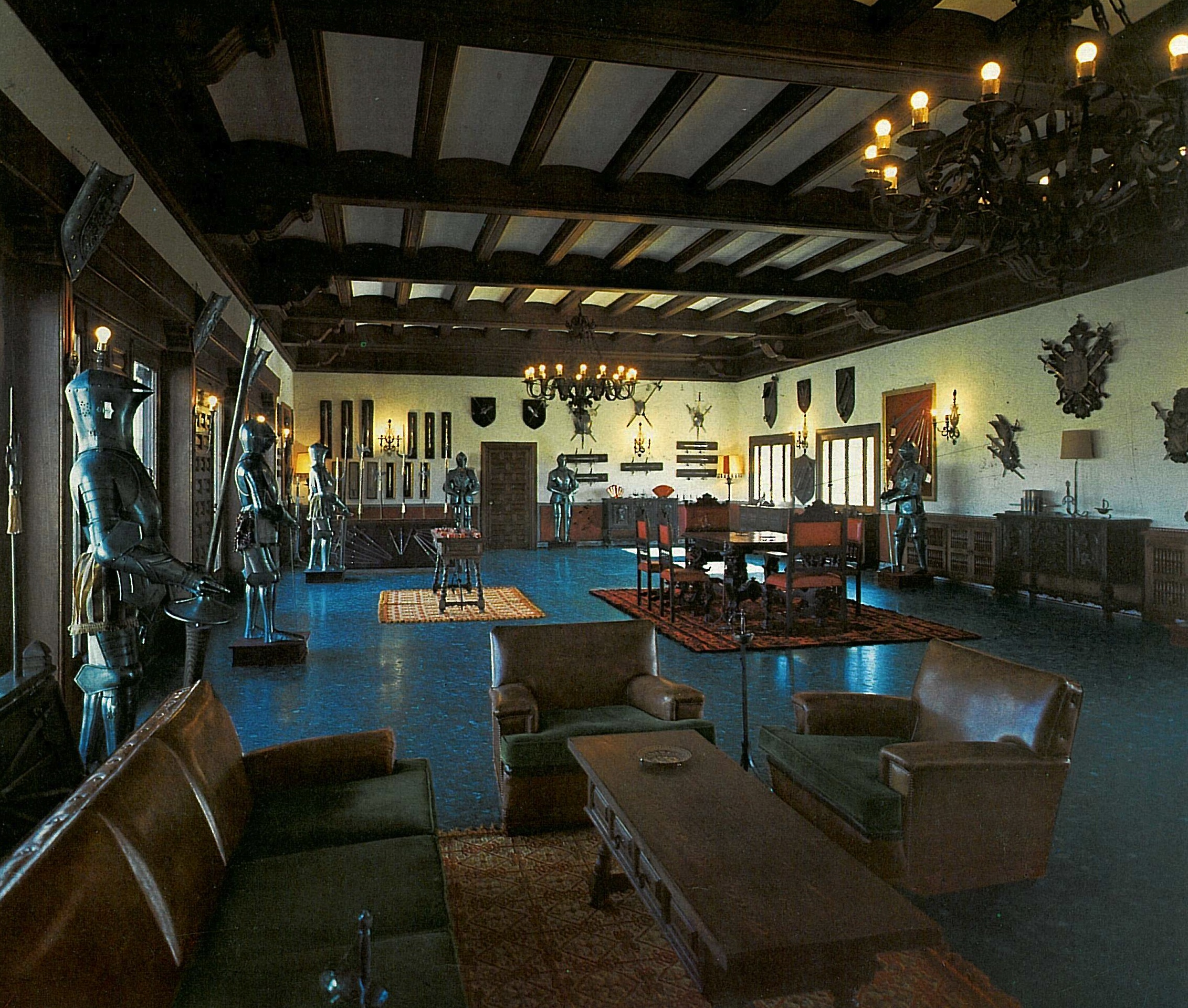 Exposición Marto 1972